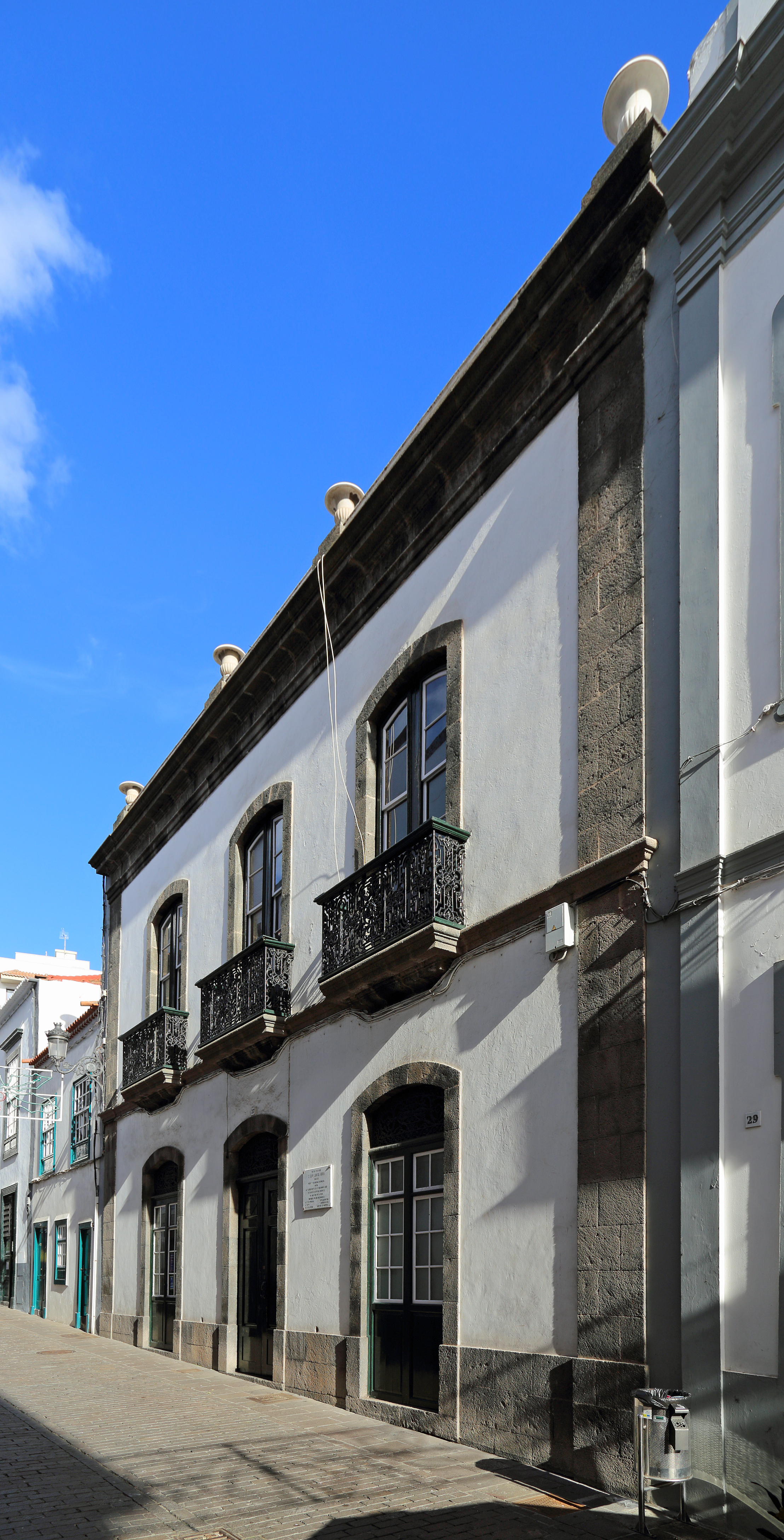 Santa Cruz de La Palma (Canary Islands): the house of Elías Santos Abreu, Spanish scientists, physician and musician